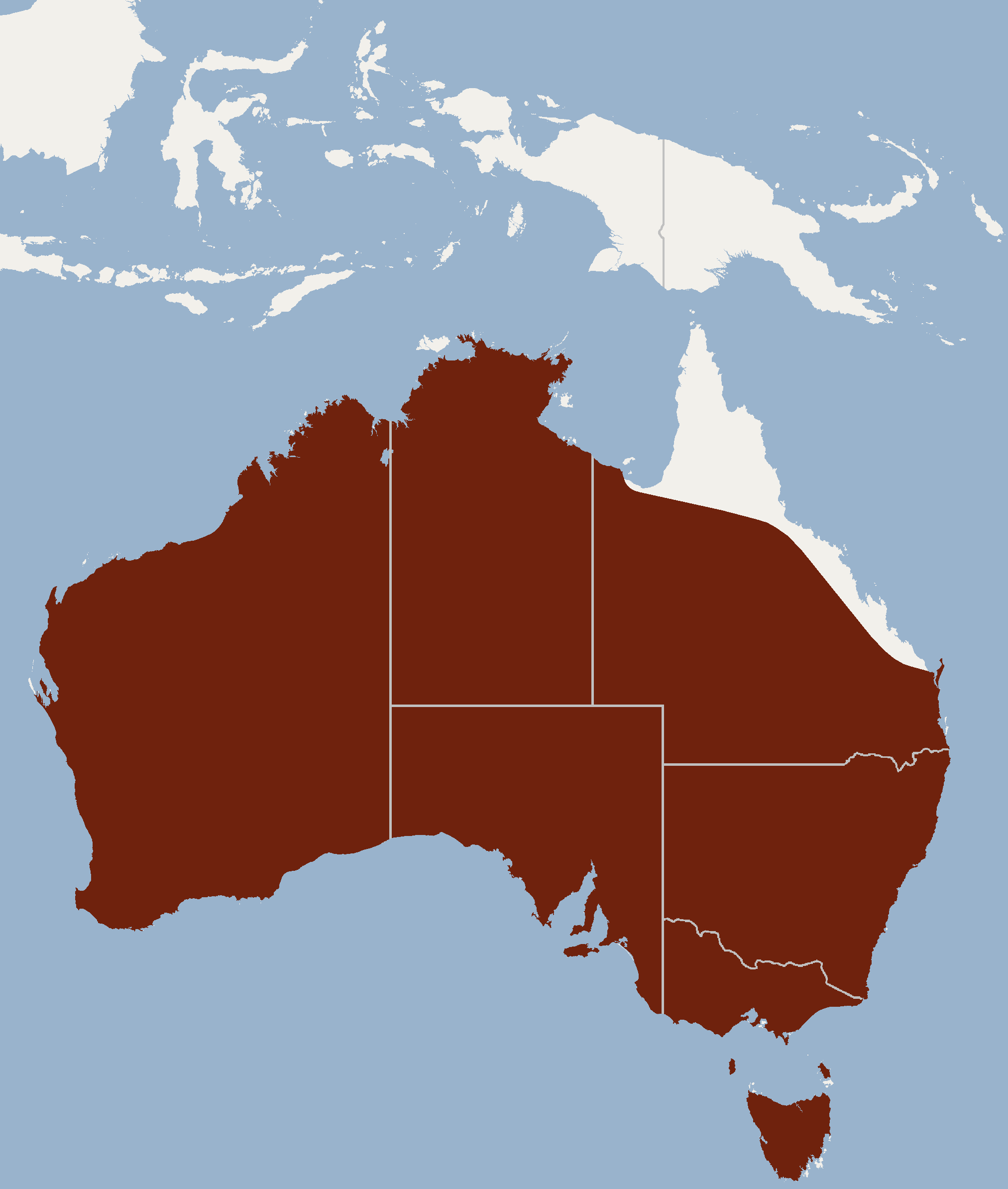 According to Menkhorst & Knight, 2001